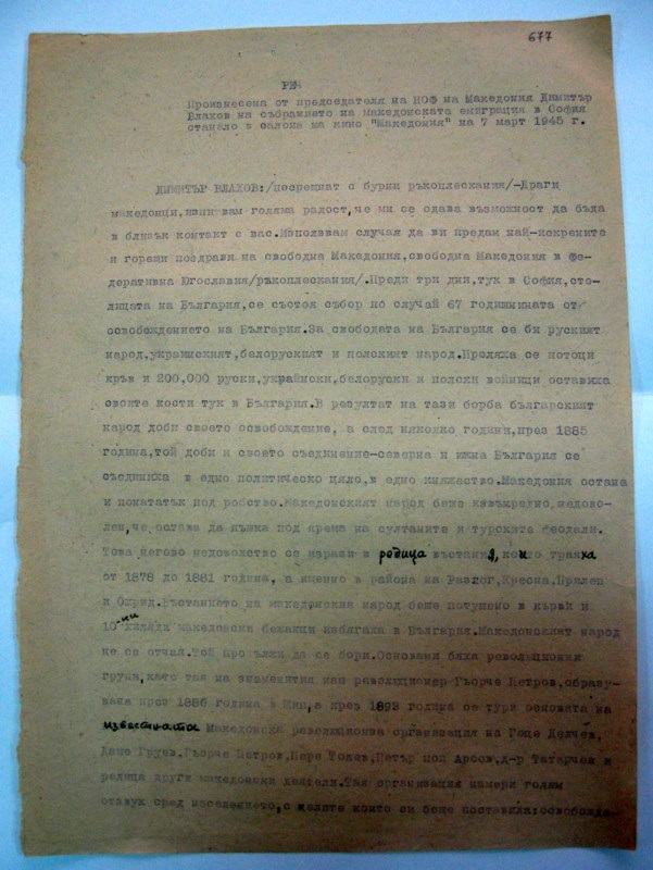 The welcoming speech of Dimitar Vlahov, made in front of Macedonian immigrants in Bulgaria, on the development of the Macedonian liberation deed and his regards from free Macedonia (March 7, 1945), First page This media file is produced by Wikipedian in Residence in Category:Wikipedian in Residence at DARM in 2016.